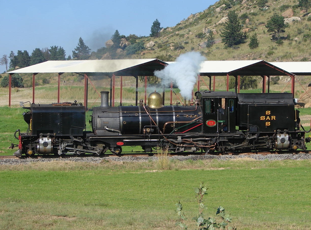 SAR Class NG G16 113 (2-6-2+2-6-2)Builder's No: BP 6923Location: Sandstone Estates, Ficksburg, Free State